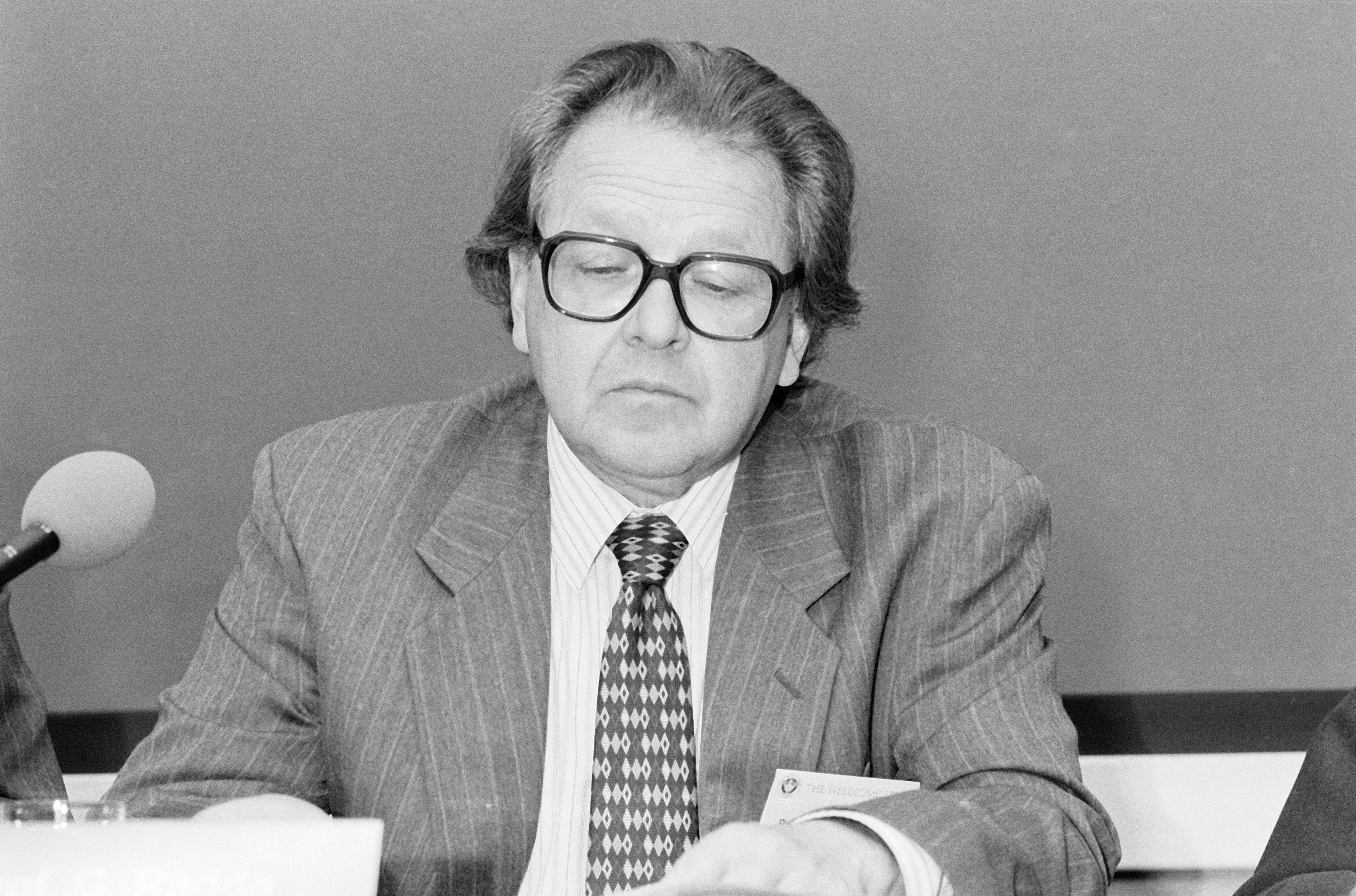 Taken at the Witness Seminar “Making the Body More Transparent: The Impact of Nuclear Magnetic Resonance and Magnetic Resonance Imaging” held by the History of Twentieth Century Medicine Group.